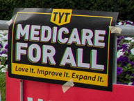 IMG_400s (3)